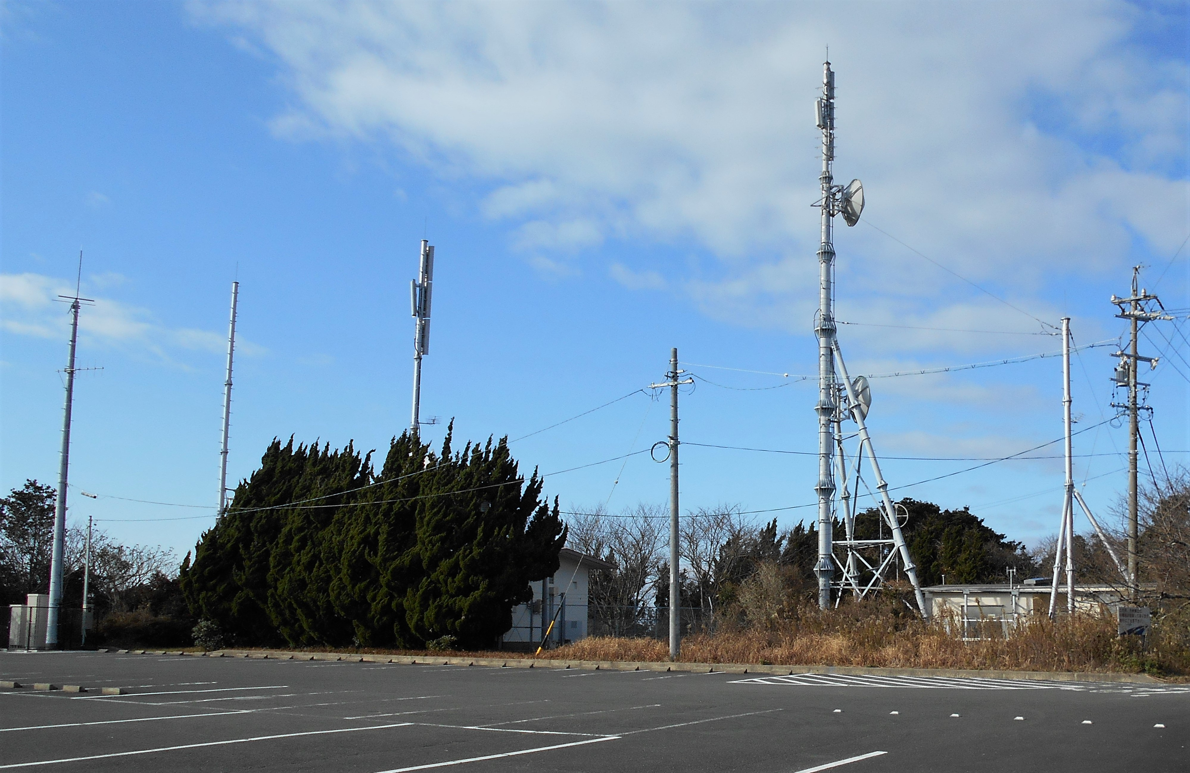 Tahara Digital TV Transmitting Station（Mt.Zaō）, is in Tahara City, Aichi Prefecture, Japan.